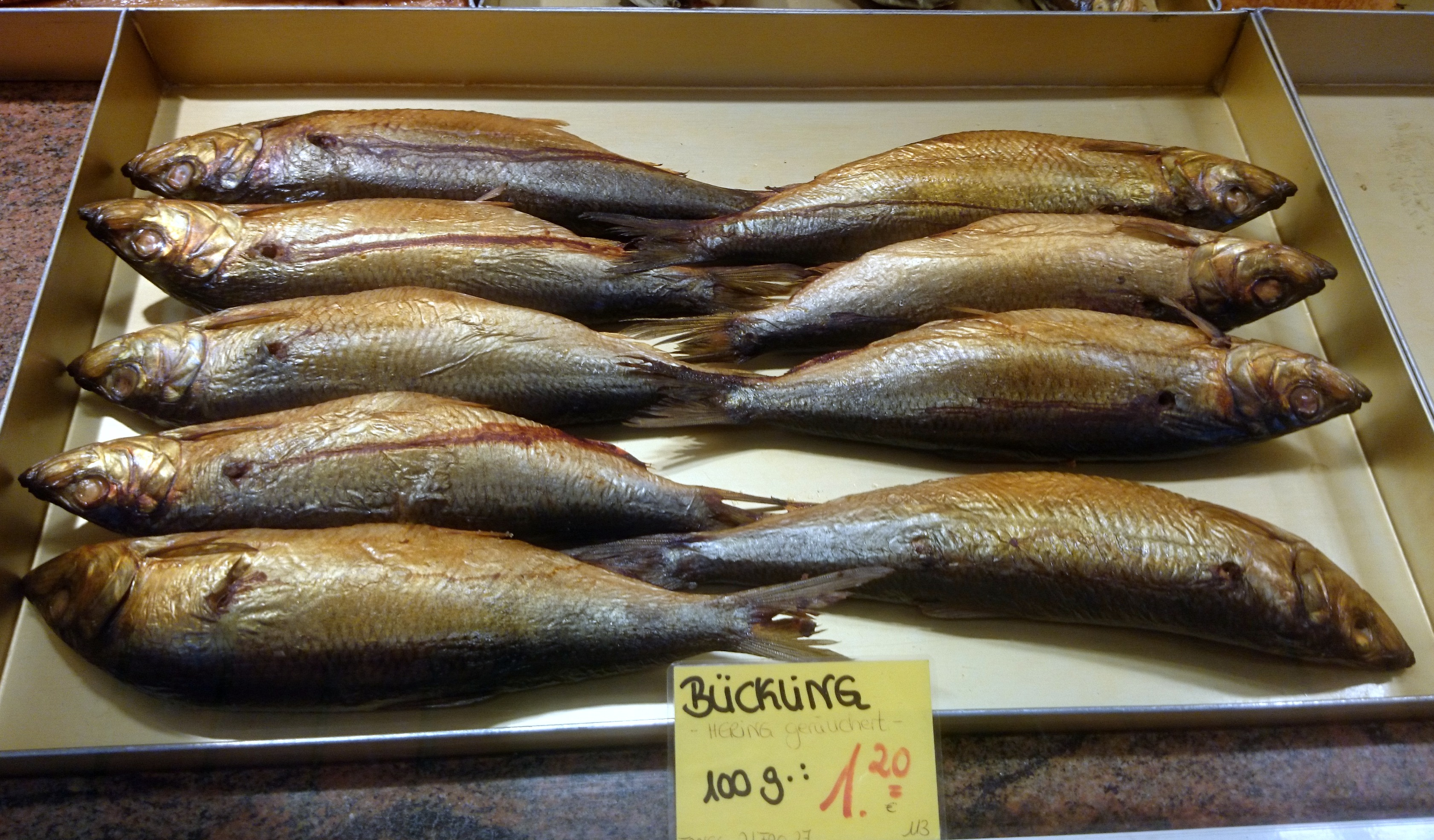 "Bückling" smoked herring in Büsum, Germany in Winter